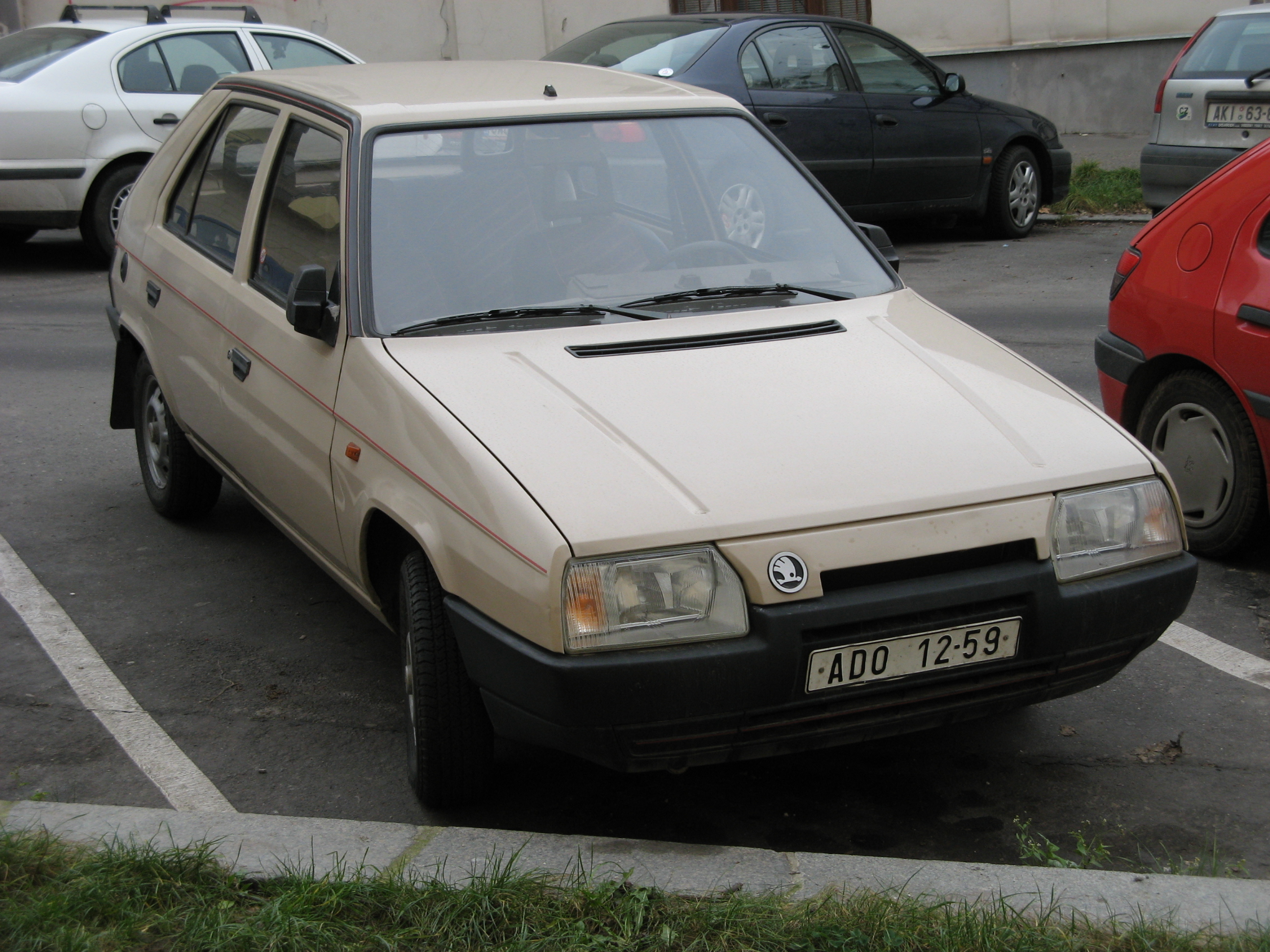 Škoda Favorit 136 L